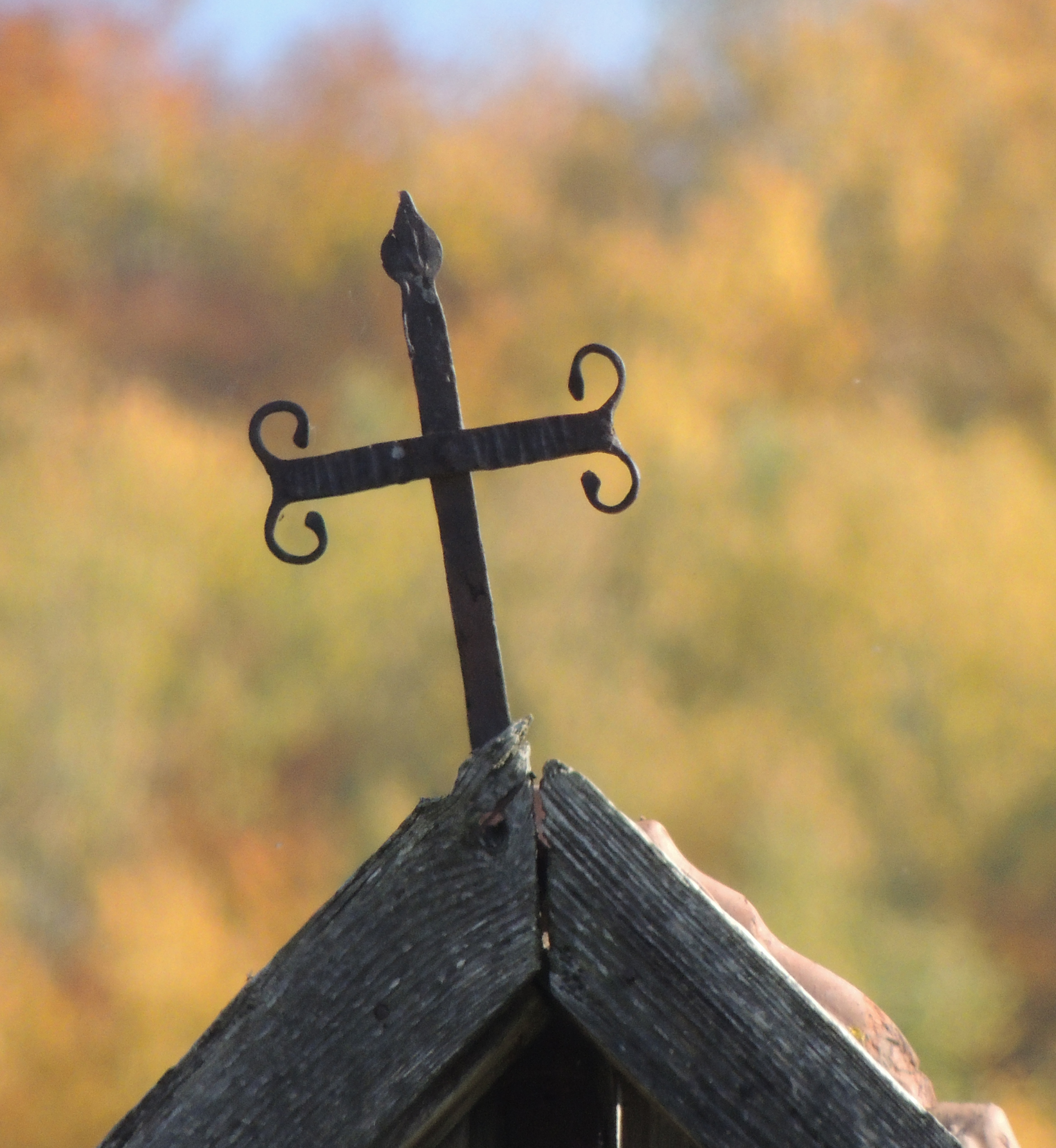 Cross on a barn in Ciucsângeorgiu, Transylvania.